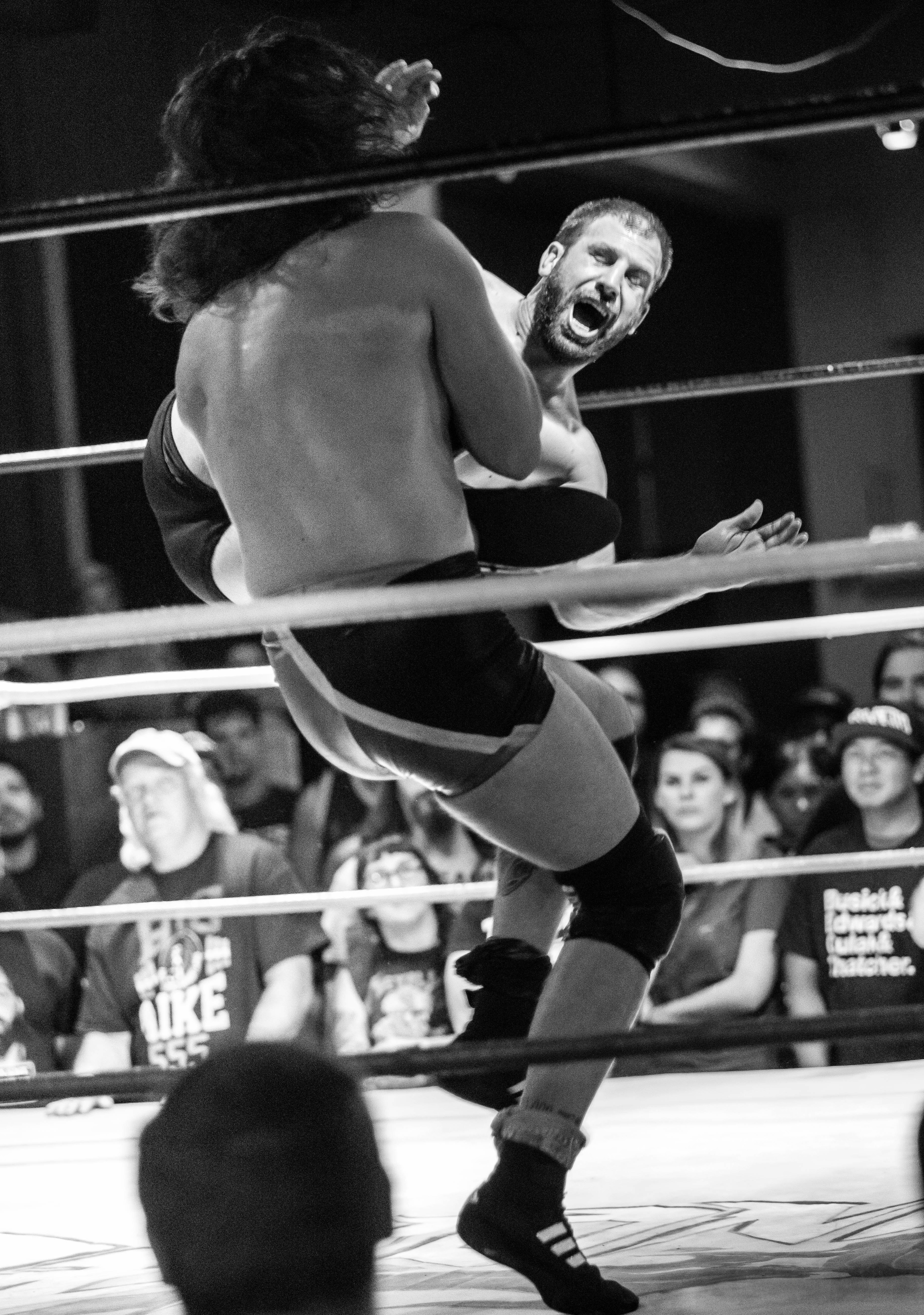 Drew Gulak in an August 2016 Beyond Wrestling event in Providene RI against Dave Cole